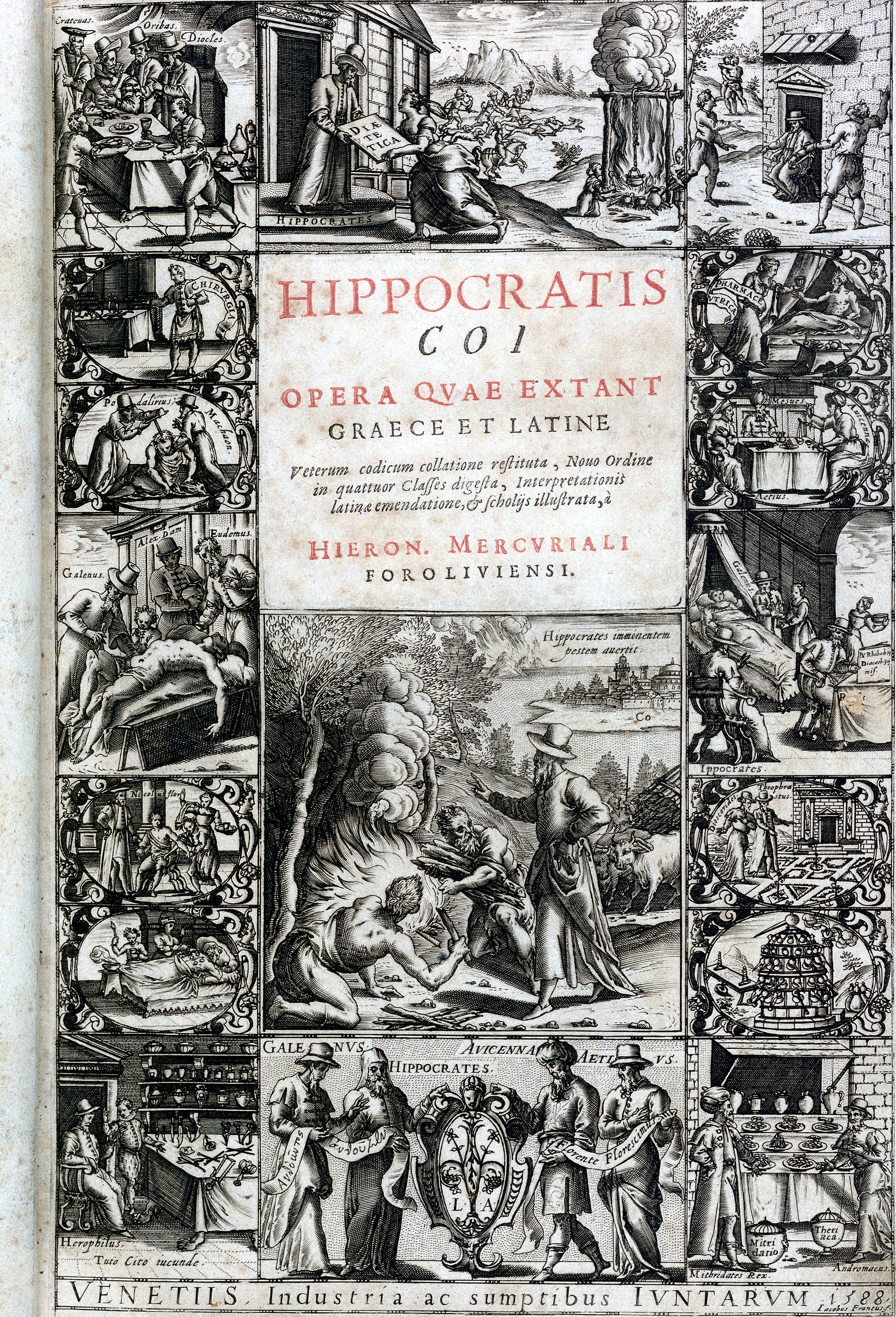 Title page. Rare Books